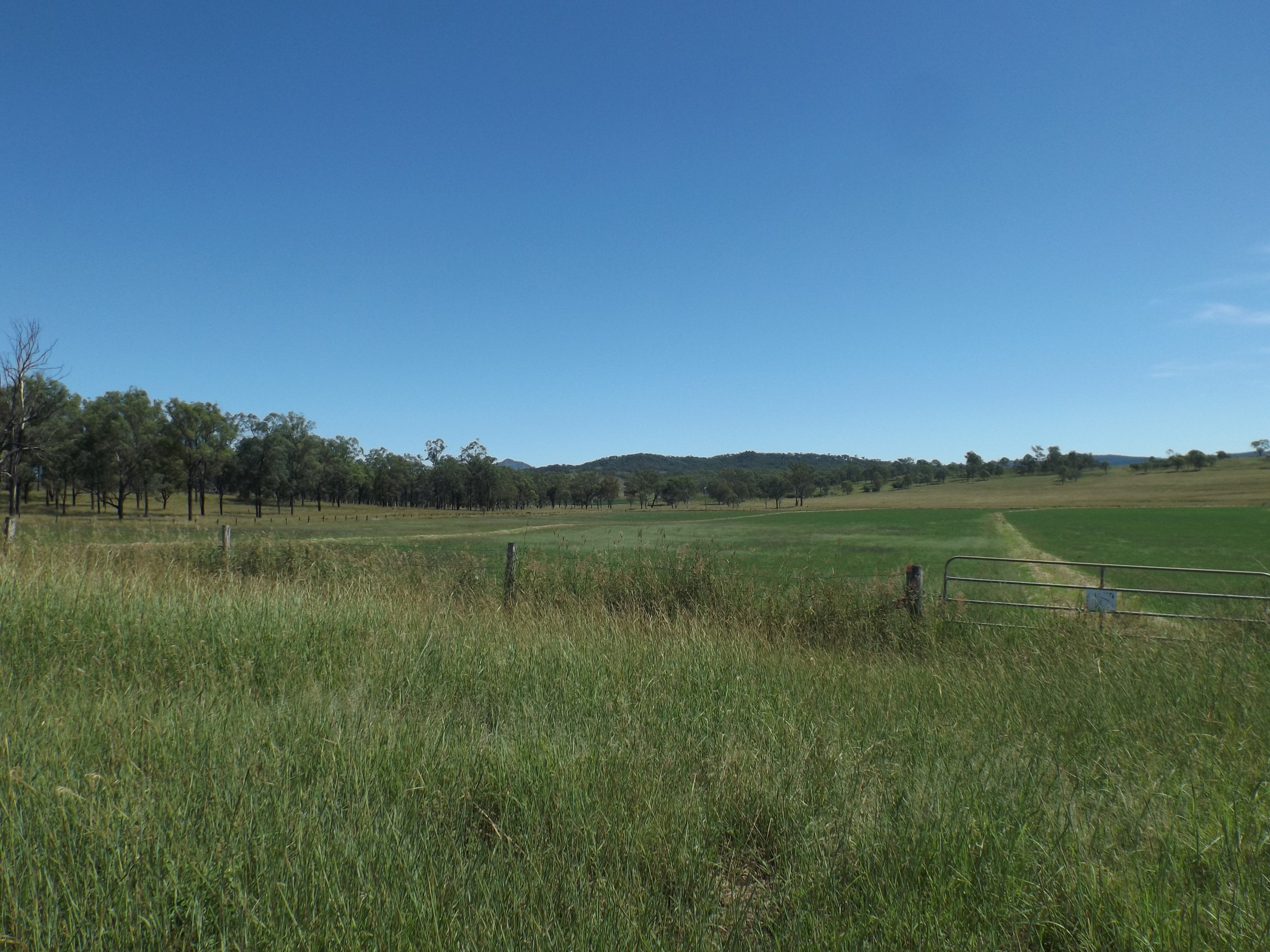 Photo of fields along Mount Walker West Road Mount Walker West, Scenic Rim Region, Queensland, Australia.